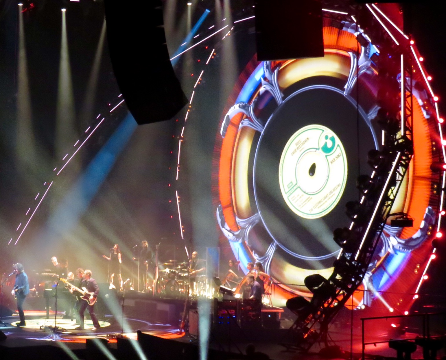 The Electric Light Orchestra perform Roll Over Beethoven at the Genting Arena, Birmingham.